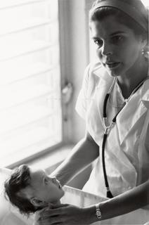 Helen Rodriguez Trias taking care of a newborn.